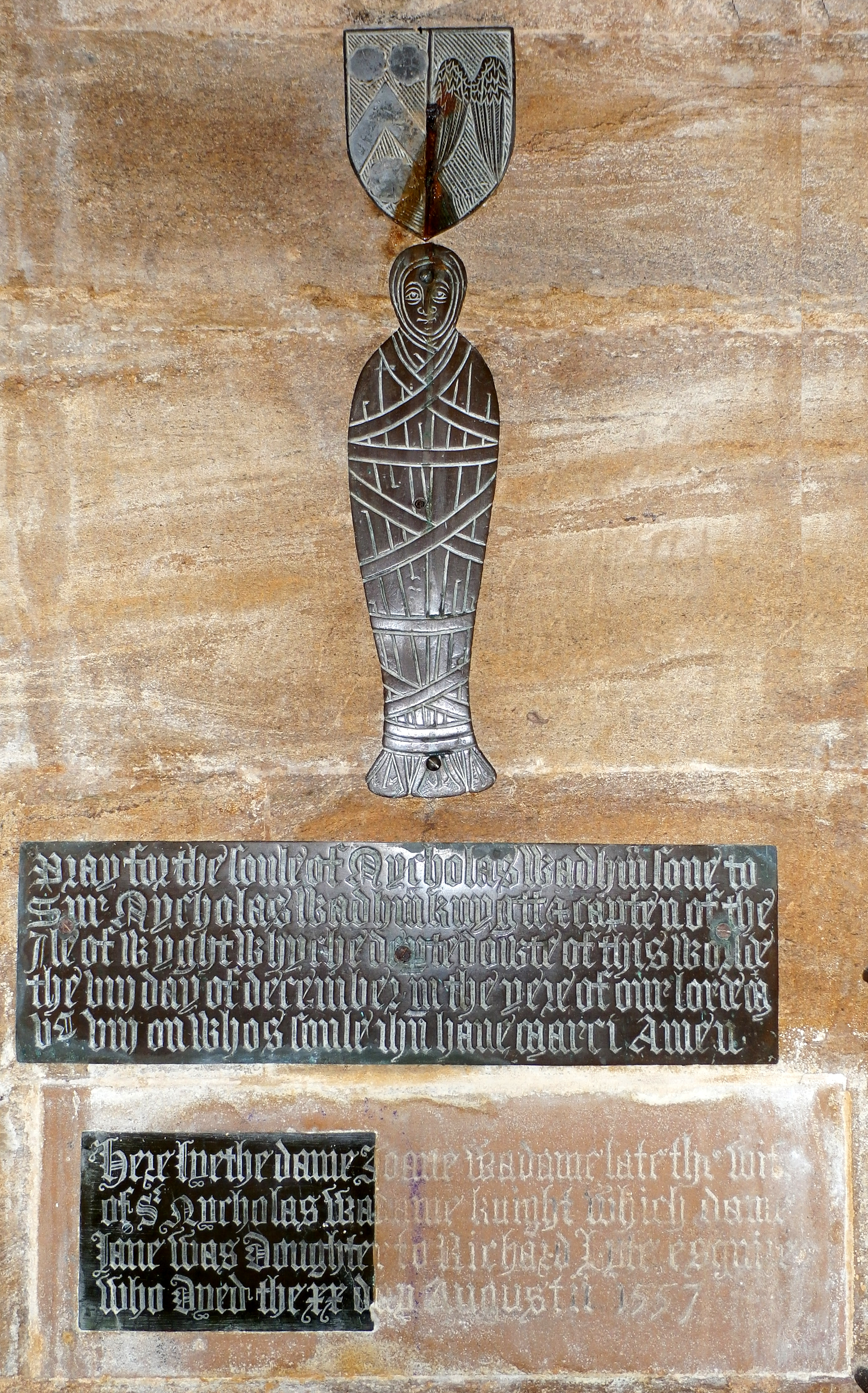 Monumental brass of Nicholas Wadham (1508-1508) infant son of Sir Nicholas I Wadham (d.1542) of Merryfield, Ilton, by his 2nd wife Margaret Seymour (aunt of Queen Jane Seymour, 3rd wife of King Henry VIII), Ilton Church, Somerset. The lowest brass inscription relates to his 4th wife Jane Lyte. Above the infant wrapped in swaddling clothes (thus called a "chrysom brass") is an escutcheon showing the arms of Wadham (Gules, a chevron between three roses argent) impaling Seymour (Gules, a pair of wings conjoined in lure or). Inscriptions: Top: "Pray for the soule of Nycholas Wadh(a)m son to Sir Nycholas Wadh(a)m knygtt & capten of the Ile of Wyght whyche dep(ar)ted owte of this worlde the VIII day of December in the yere of our Lorde M VC VIII on whos soule J(es)HU(s) have marci amen". Bottom: "Here lyethe dame Joane Wadame late the wife of Sr Nycholas Wadame knight which dame Jane was doughter to Richard Lyte esquire who dyed the XX day Augustii 1557". (Augustii, Latin: "of August")